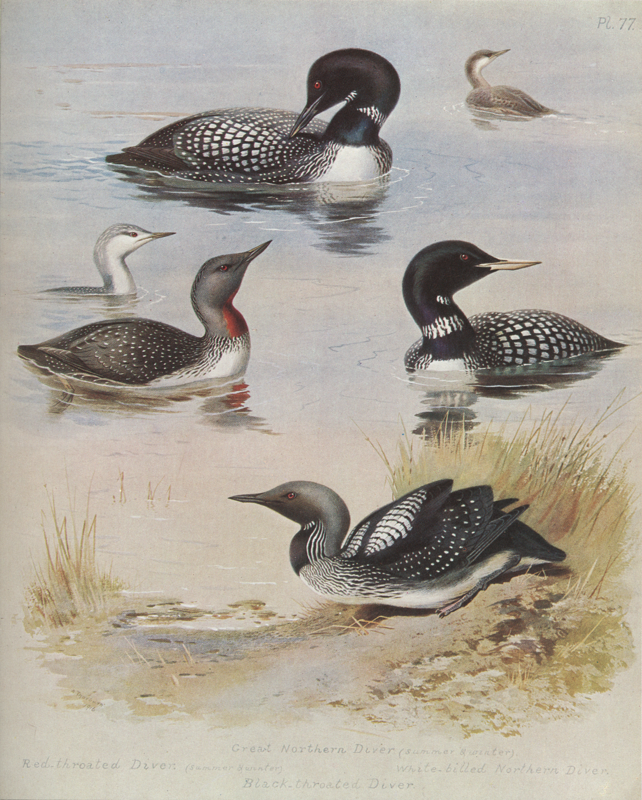 Archibald Thorburn's Plate 77 Top: Great Northern Diver (Gavia immer) (summer & winter) Mid-left: Red-throated Diver (Gavia stellata) (summer) Mid-right: White-billed Diver (Gavia adamsii) (summer) Bottom: Black-throated Diver (Gavia arctica) (summer).